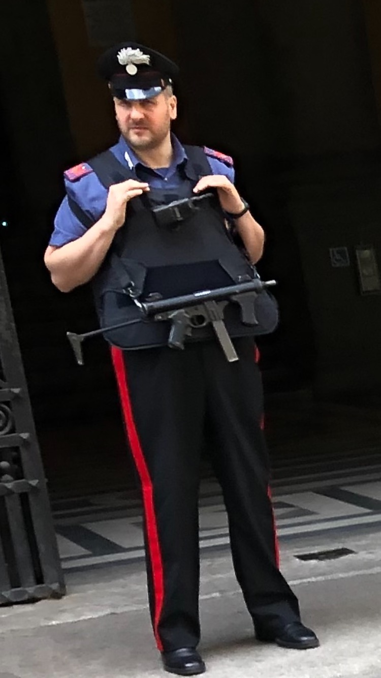 An Italian security officer stands guard with a Beretta M12 near the Florence Cathedral, 12 June, 2019.